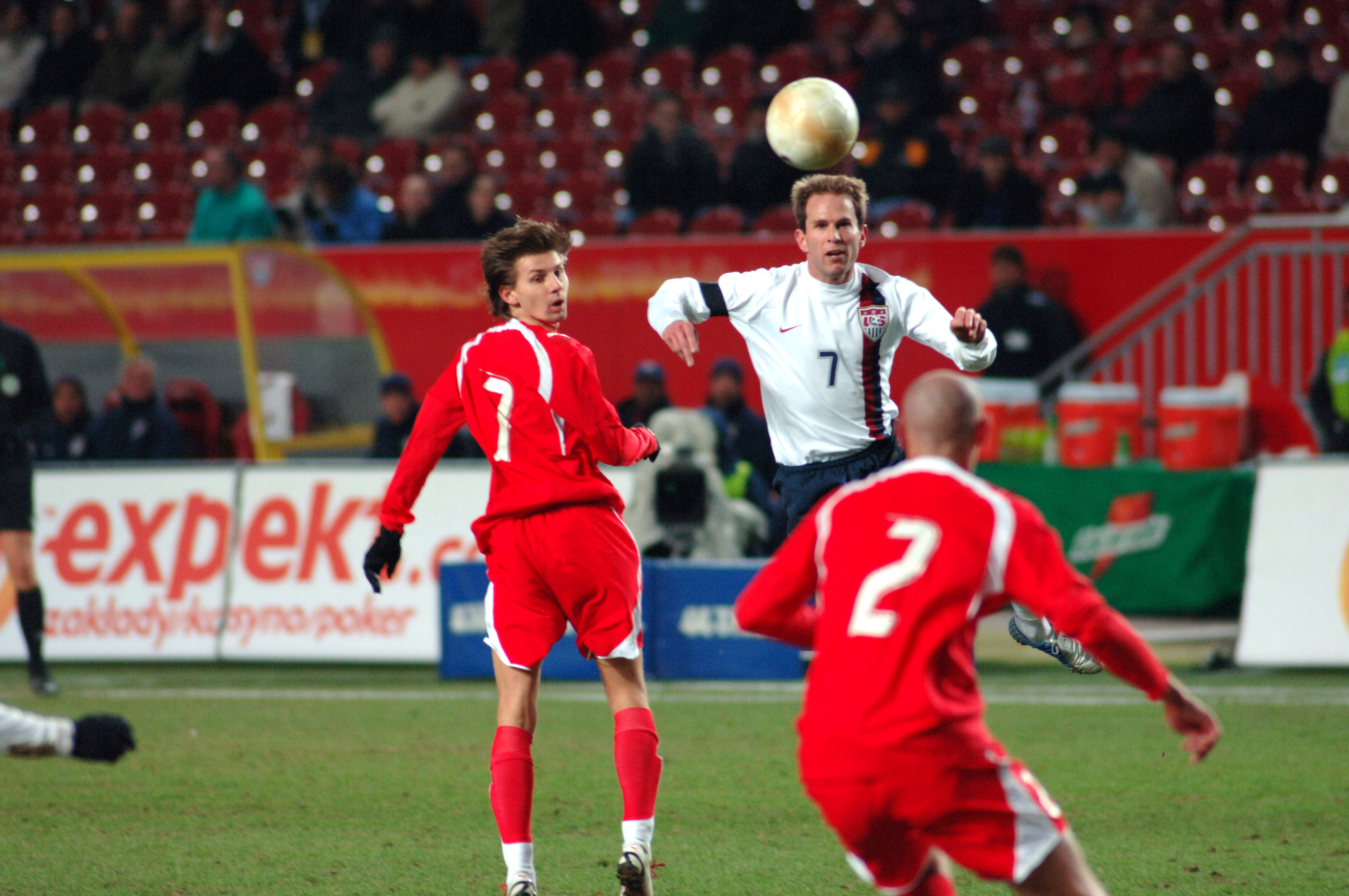 American soccer player Eddie Lewis directs the ball forward with a "header" during the U.S. Men's National Soccer Team 1-0 victory over Poland, Wednesday, March 1, 2006, in Kaiserslautern, Germany. More than 13,000 soccer fans attended the exhibition match at Fritz-Walter-Stadium. VIRIN: 060301-F-0994L-558.jpg